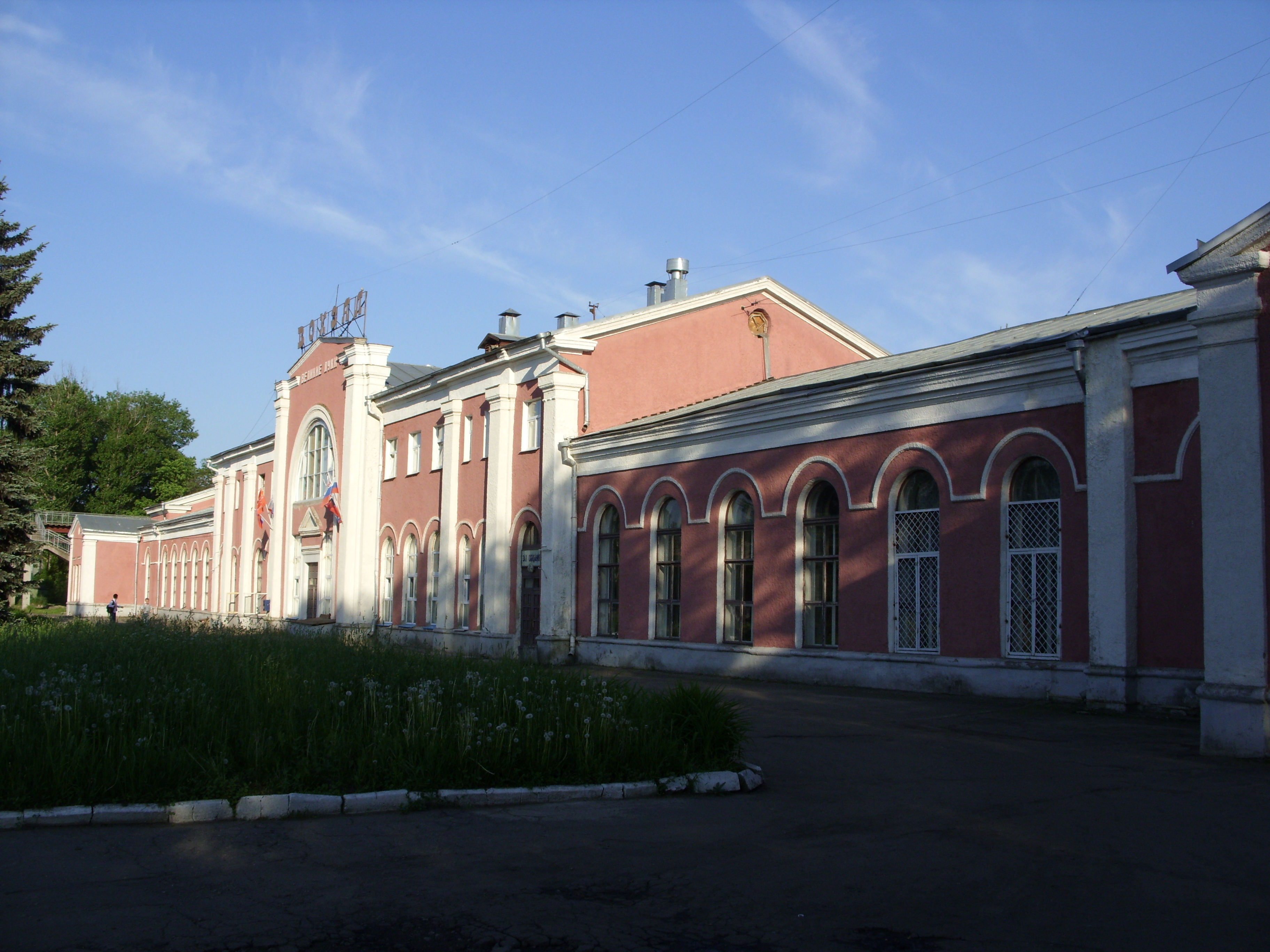 Vokzal_Vel_Luki_mai2010